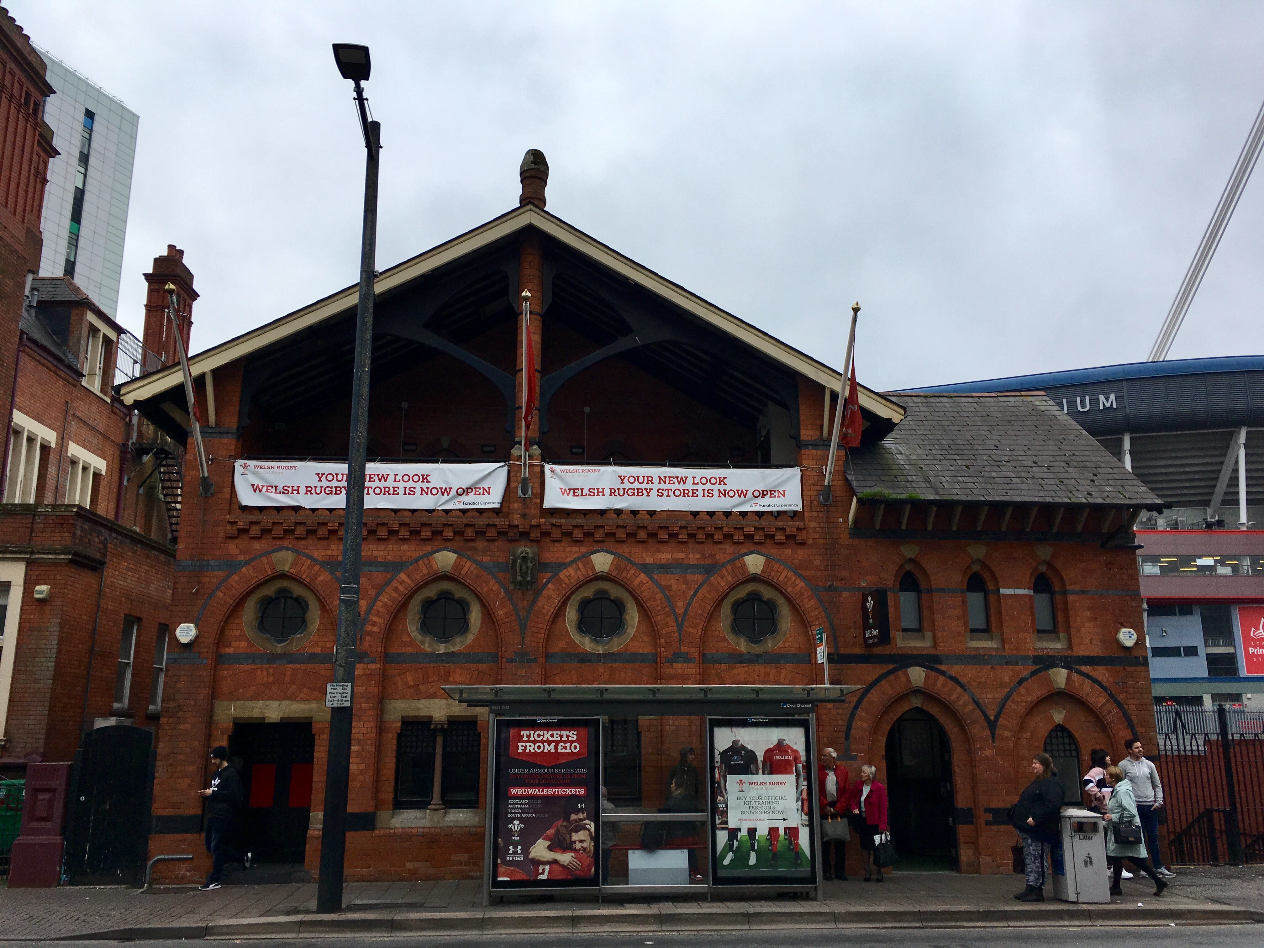 The Grade II listed former Cardiff Racquet and Squash club at Jackson Hall, Westgate Street, Cardiff, October 2018. At present it is the gift and ticket shop of the Welsh Rugby Union.